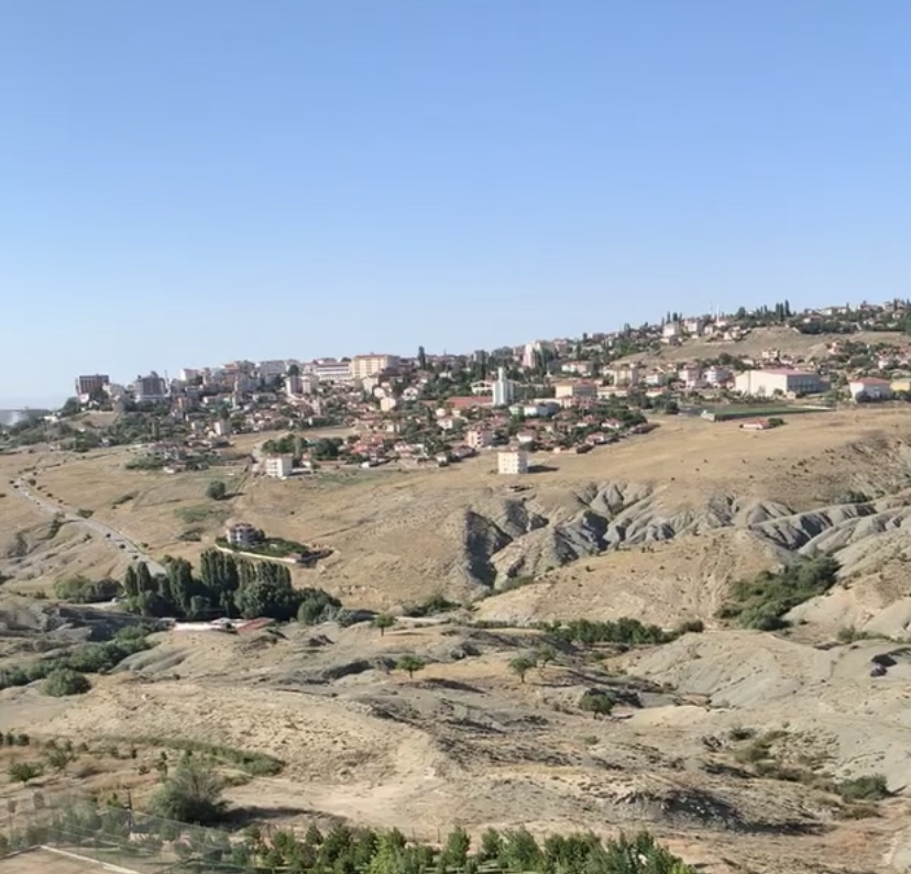 View of Haymana city in Ankara Province